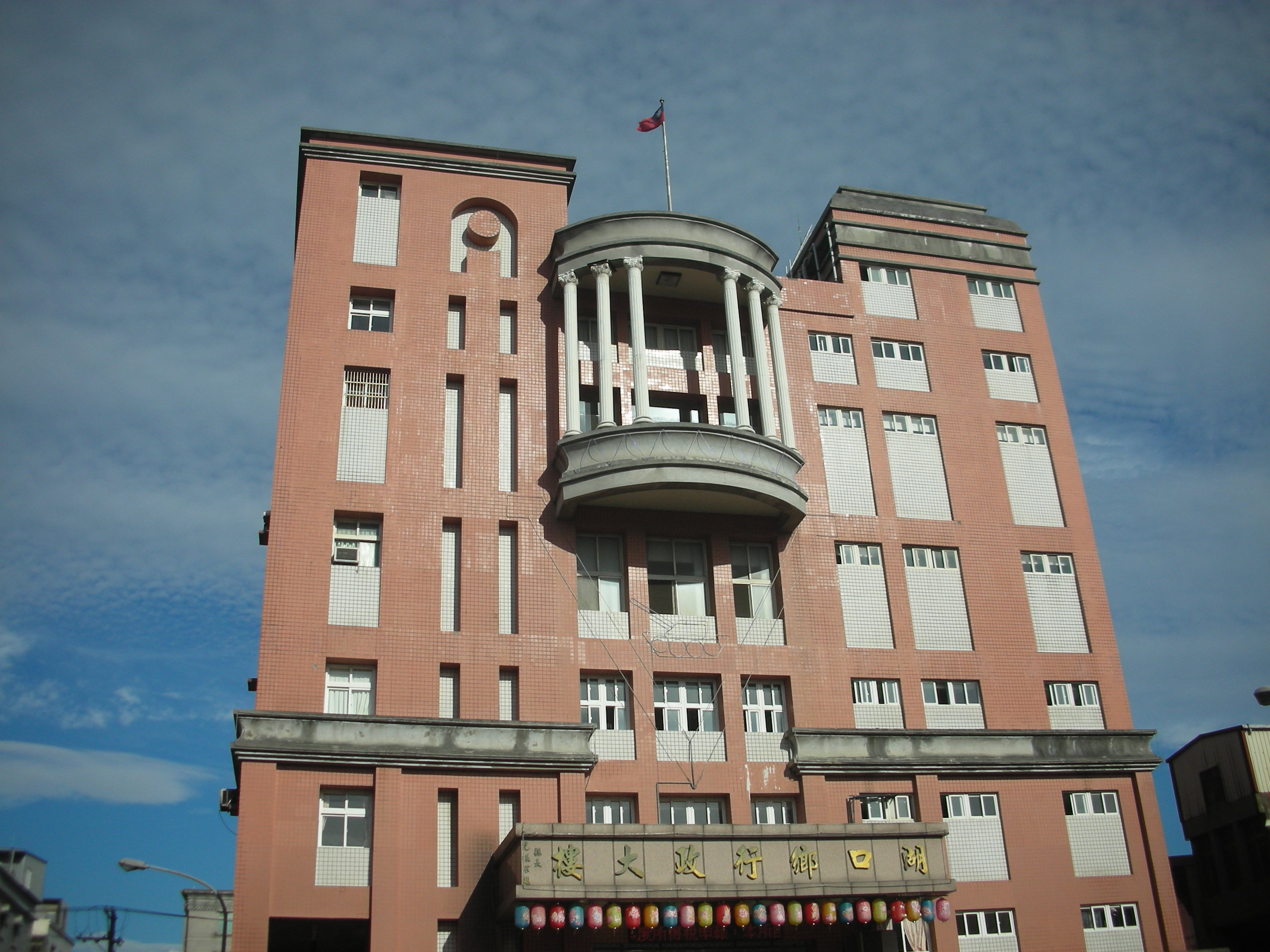 Hukou Township Administration Building, Hsinchu County.